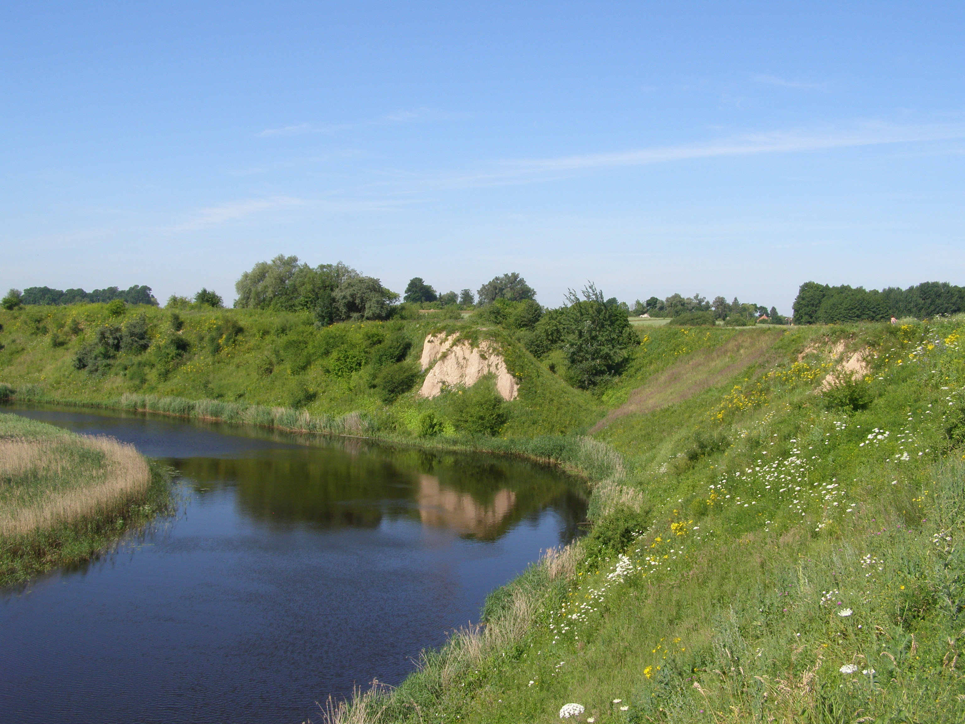 Marijampolė (Meškučiai) second hillfort, Marijampolė district, LithuaniaLietuvių: Marijampolės (Meškučių) II piliakalnis, Marijampolės savivaldybė, Lietuva